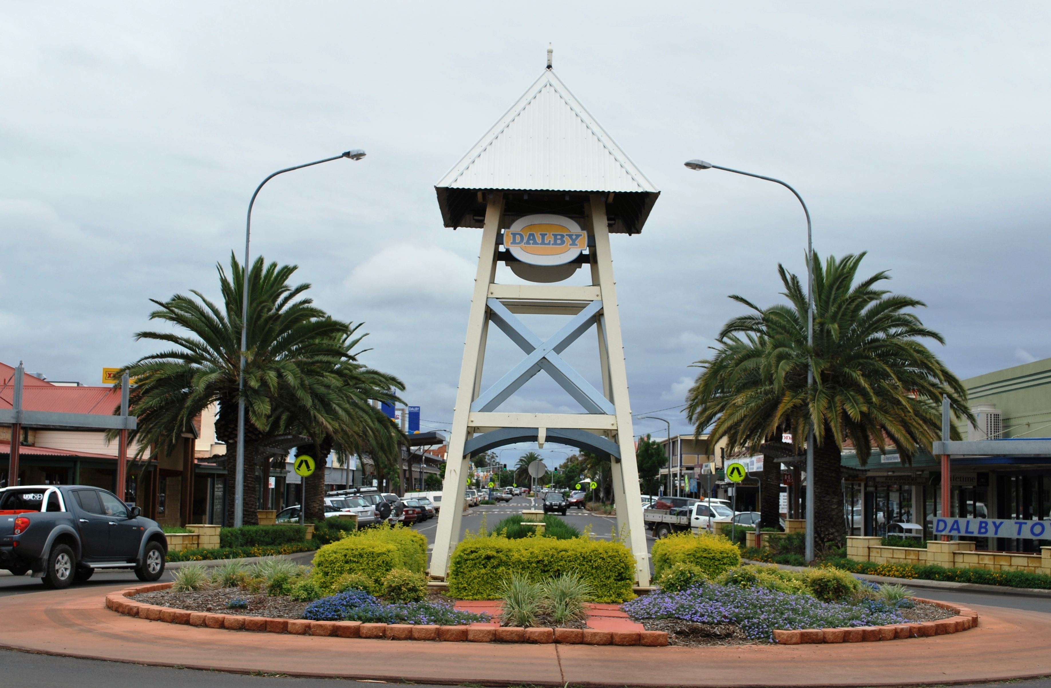 Main street of Dalby, Queensland